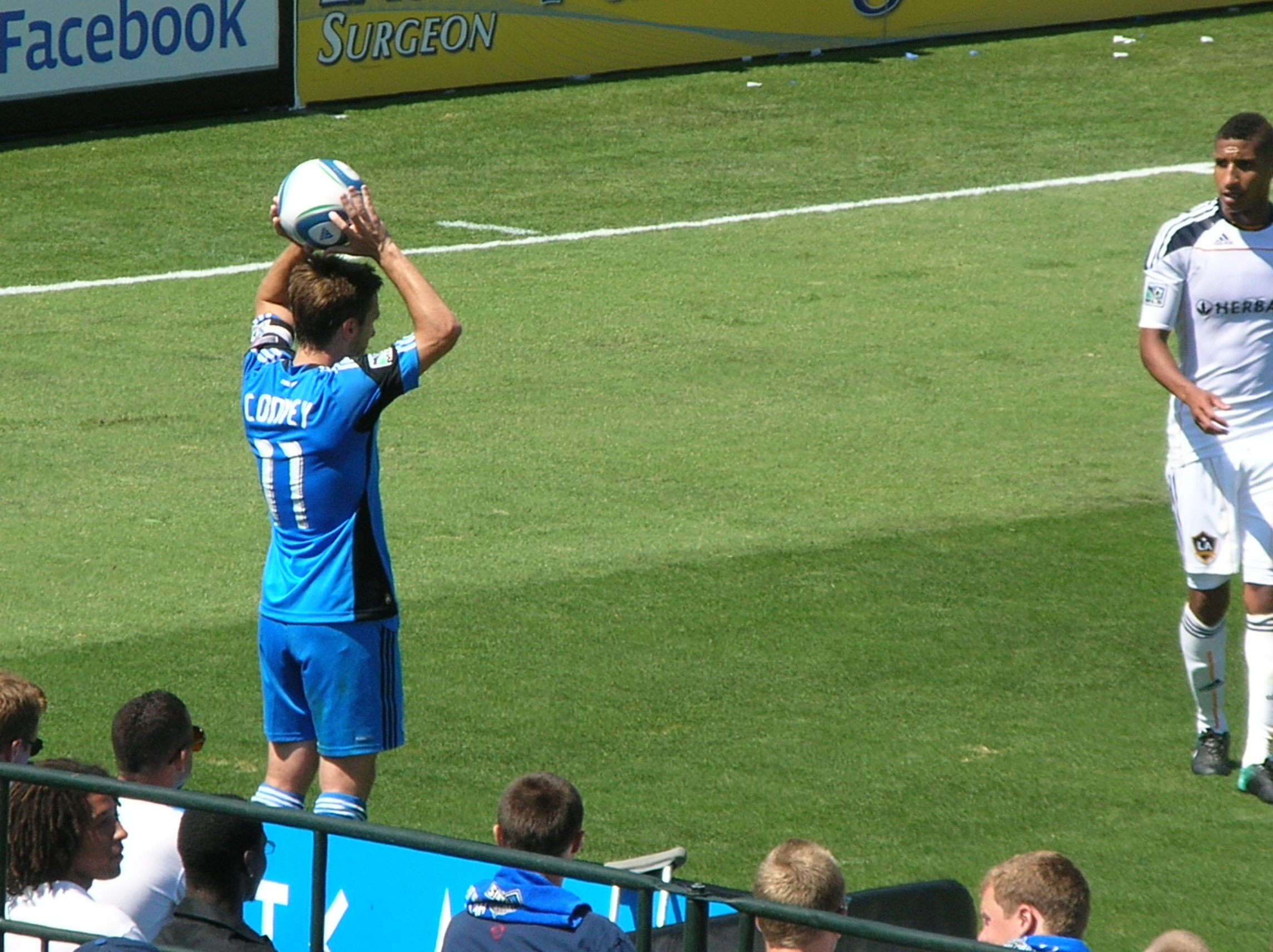 A match between the Los Angeles Galaxy and the San Jose Earthquakes at Buck Shaw Stadium in Santa Clara. The Earthquakes won 1-0.